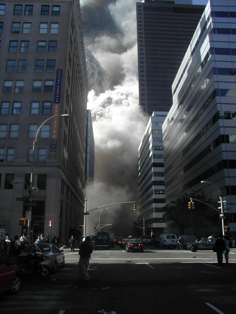 September 11 attacks. A cloud of dust and smoke in West Broadway after the collapse of WTC2.